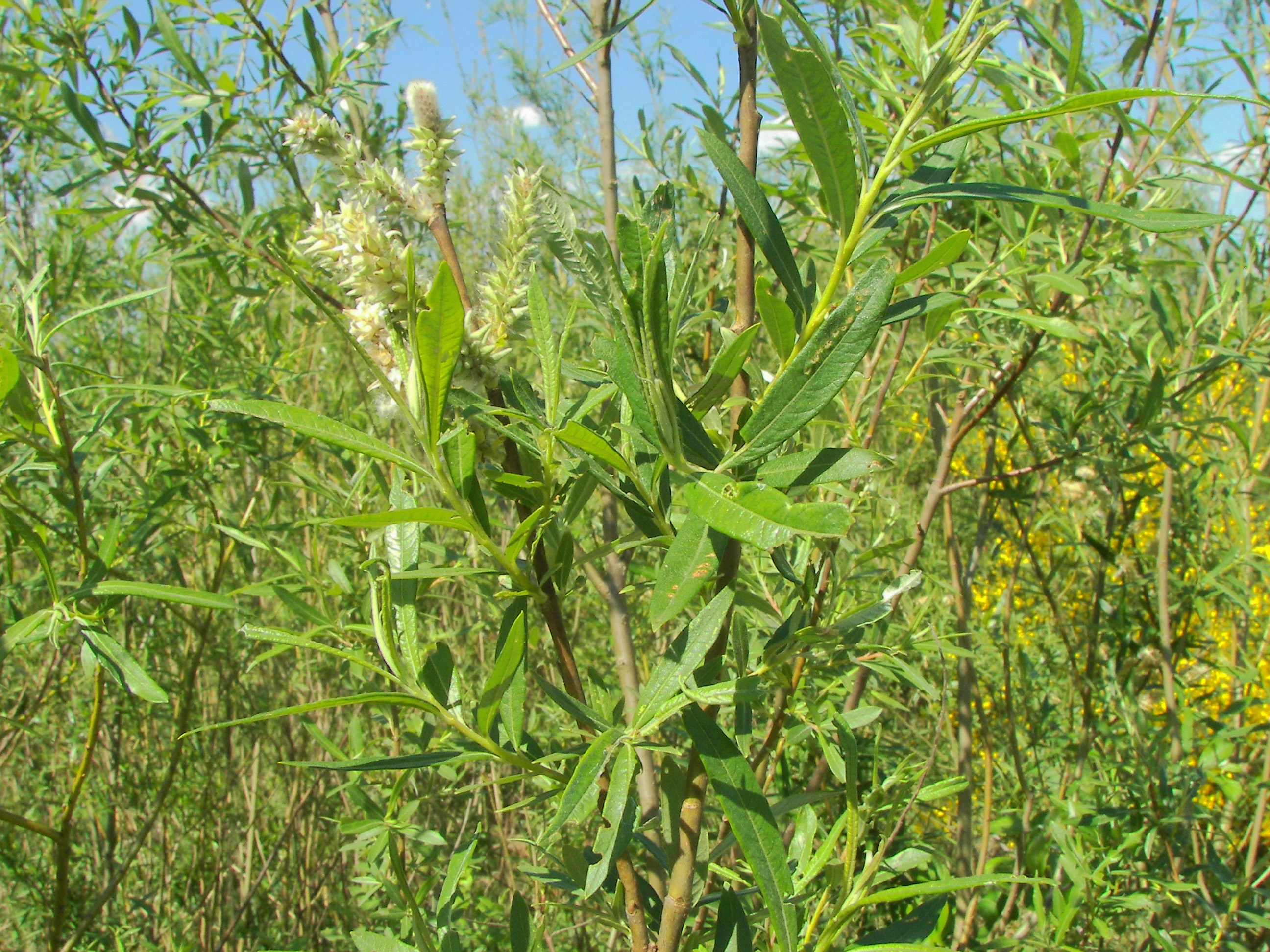 Common Osier (Salix viminalis), leaves, Location: Lahntal-Goßfelden, Hesse, Germany